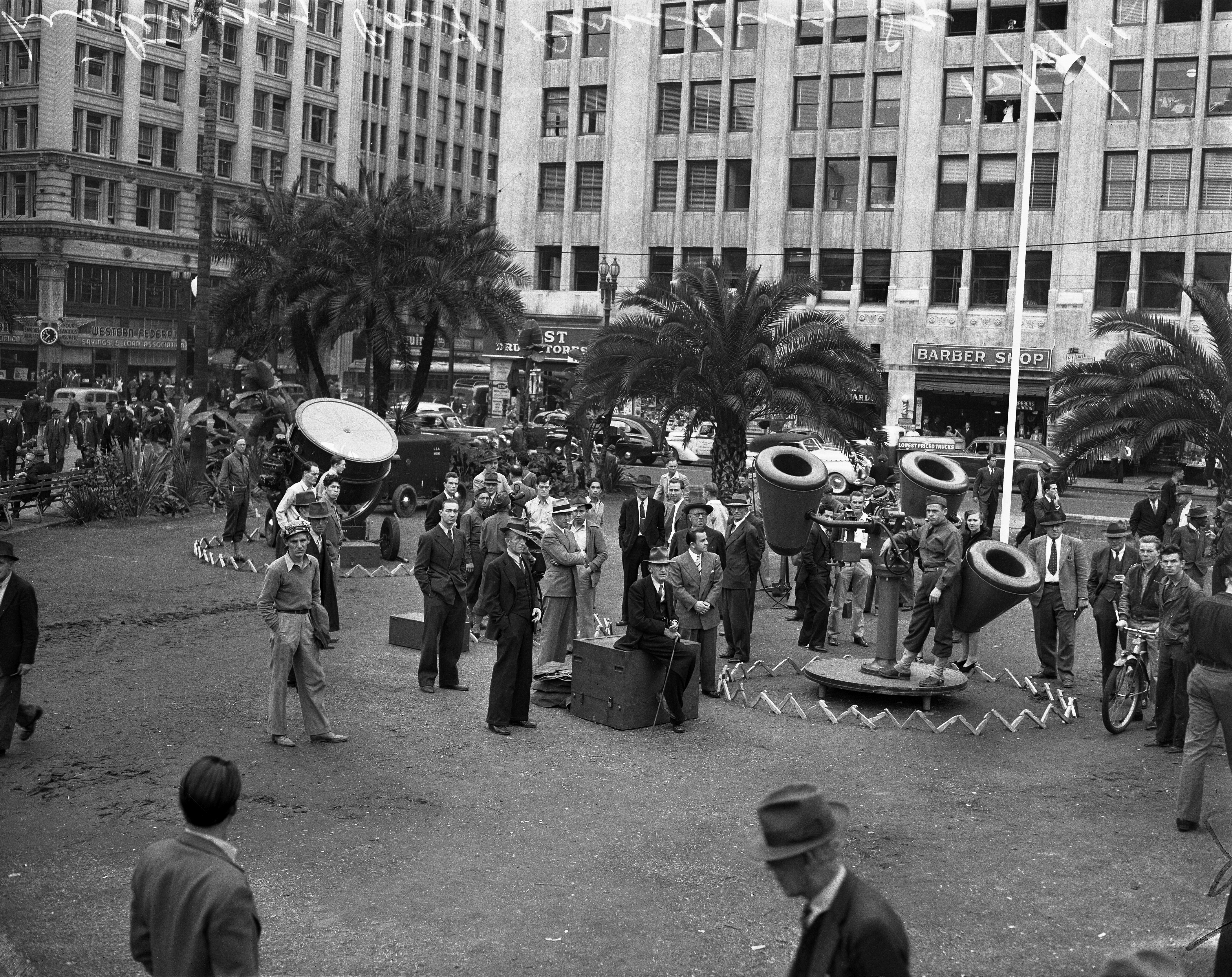 Title: Listening post and air raid lights positioned in Perishing Square, Los Angeles, Calif., 1941 Publication:Los Angeles Times Publication date:December 19, 1941 Source:Los Angeles Times photographic archive, UCLA Library Note about non-renewal of copyright: [1]